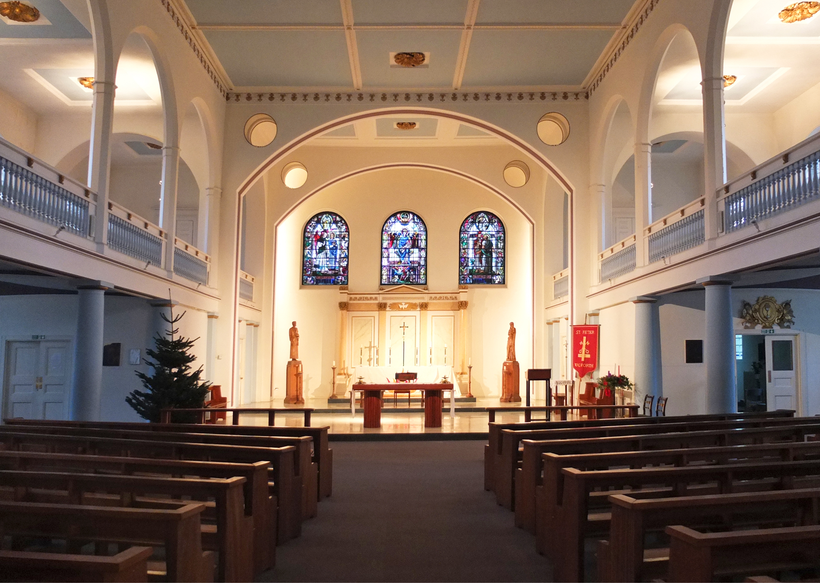 Restored Chancel and reredos.